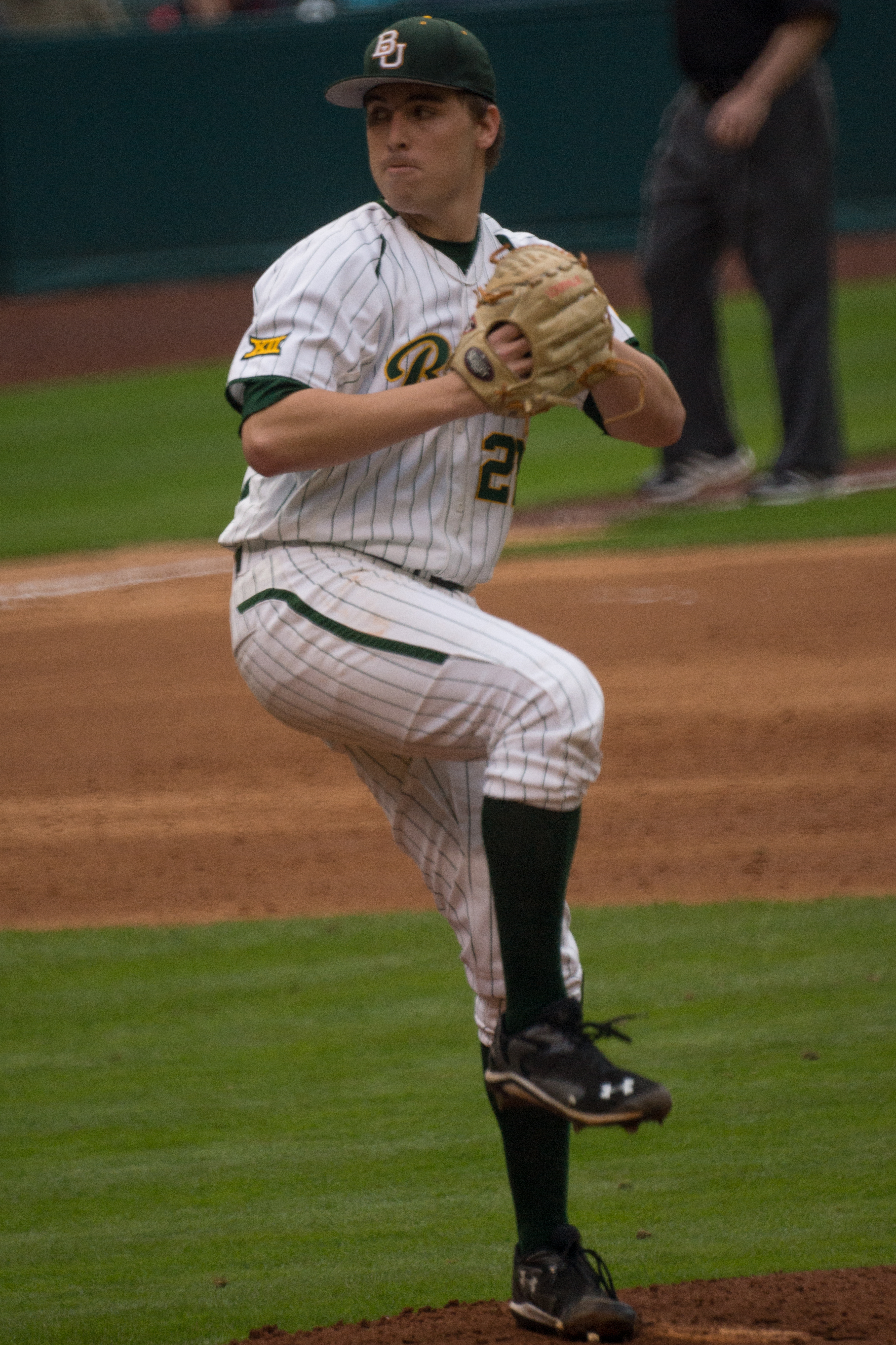 Daniel Castano delivers a pitch for the Baylor Bears during the Astros College Classic in 2015.